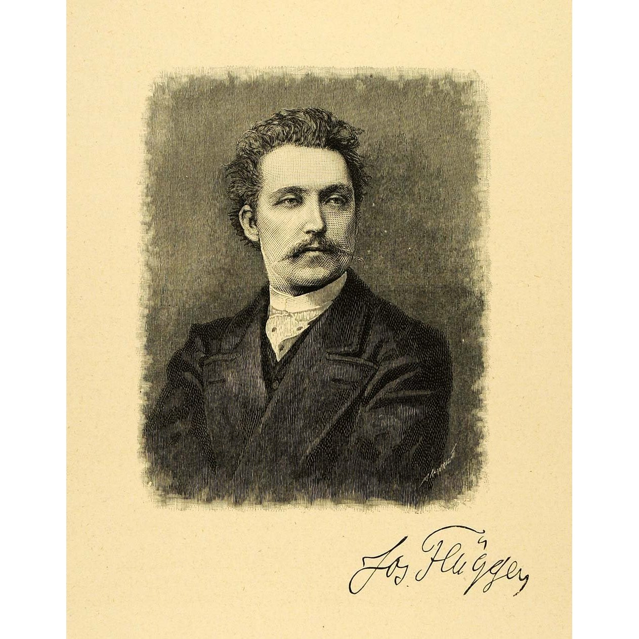 Wood engraving of Josef Flüggen (Munich 1842-1906) Aliases: Joseph Flüggen; Joseph Eduard Flüggen